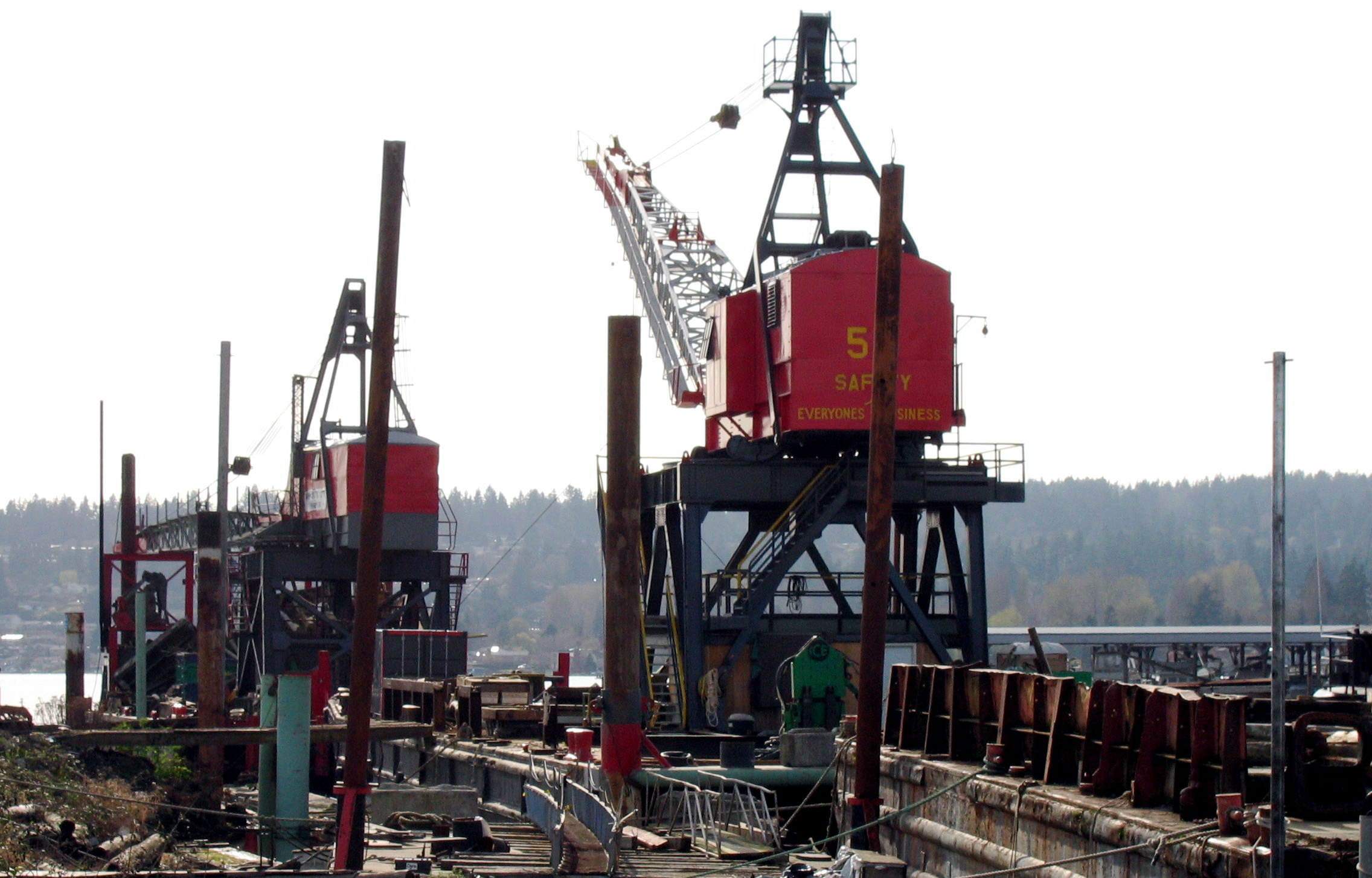 Photo by me (Dara Korra'ti/Dawnstar Graphics) of cranes in Kenmore, Washington's industrial harbour.